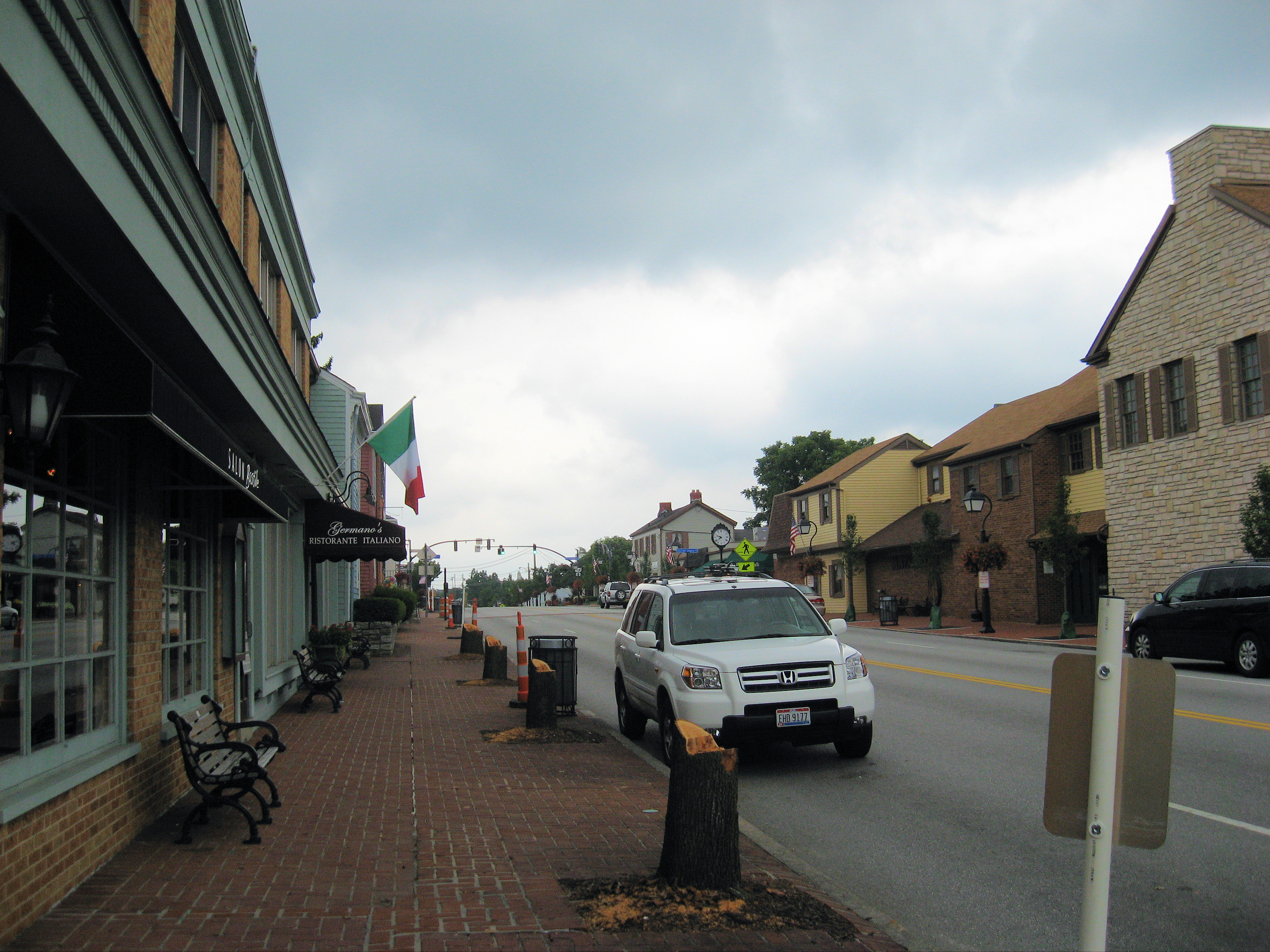 Downtown Montgomery (Montgomery, Ohio, USA)